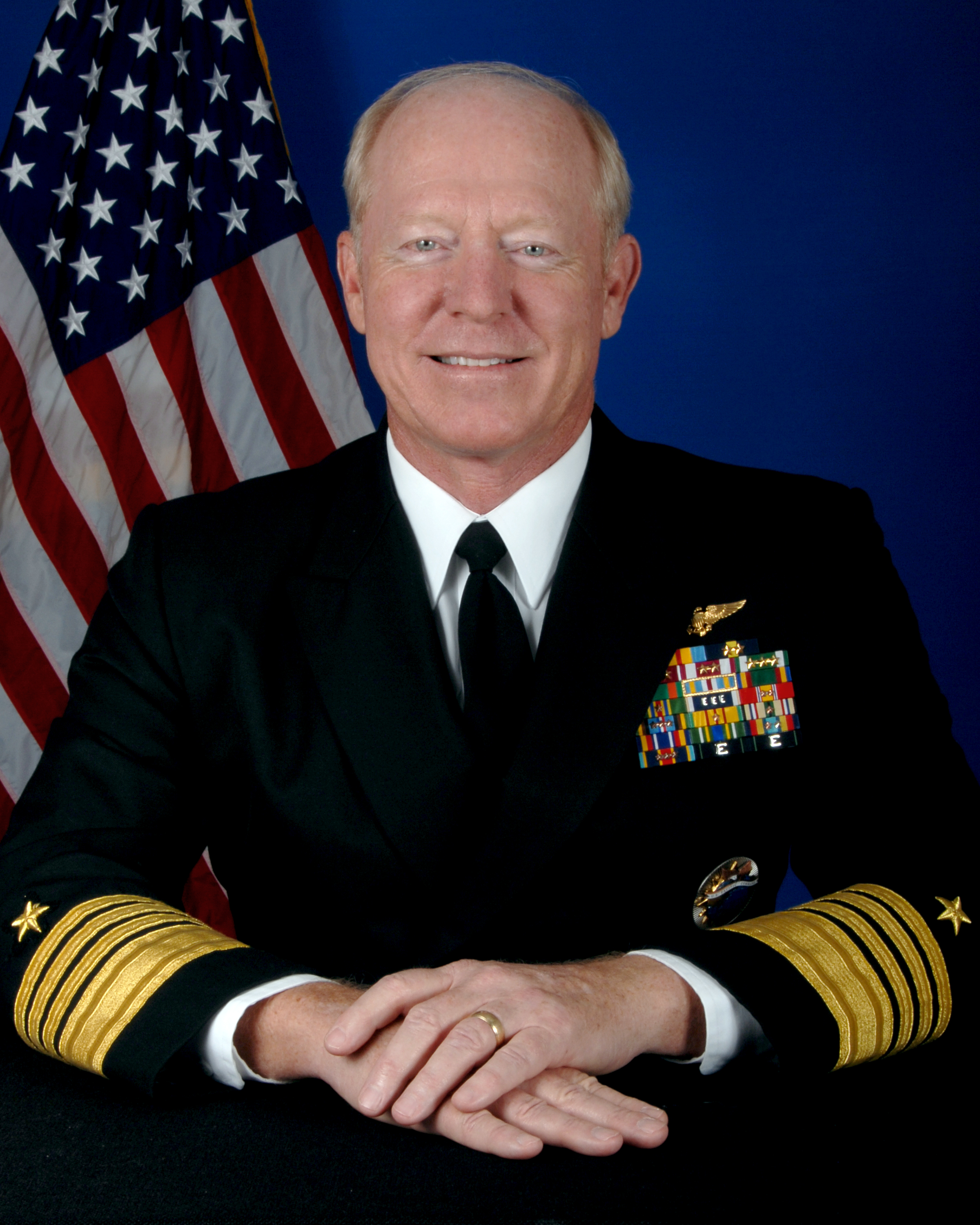 Admiral Robert F. Willard, official portrait